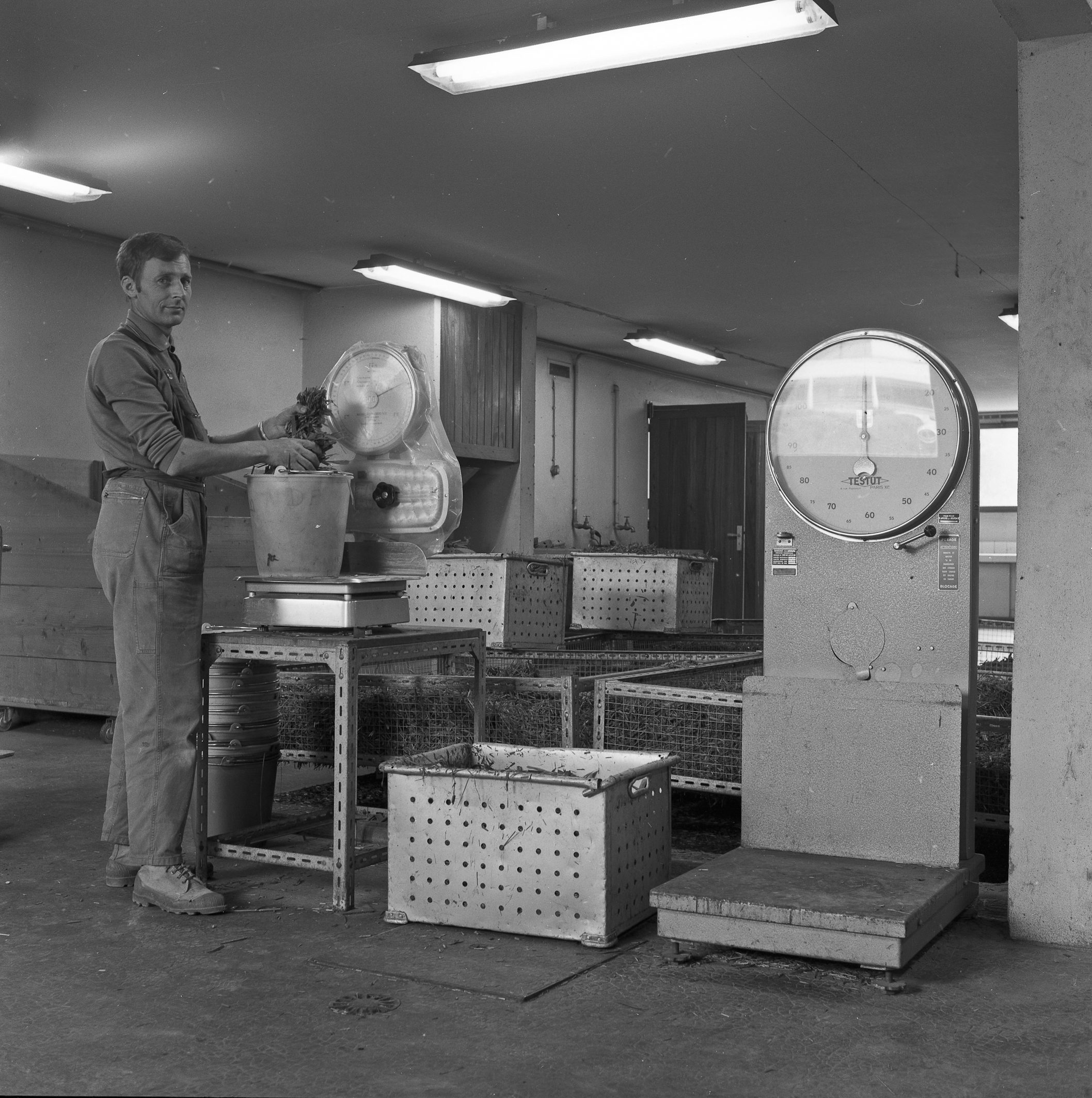 INRA Theix